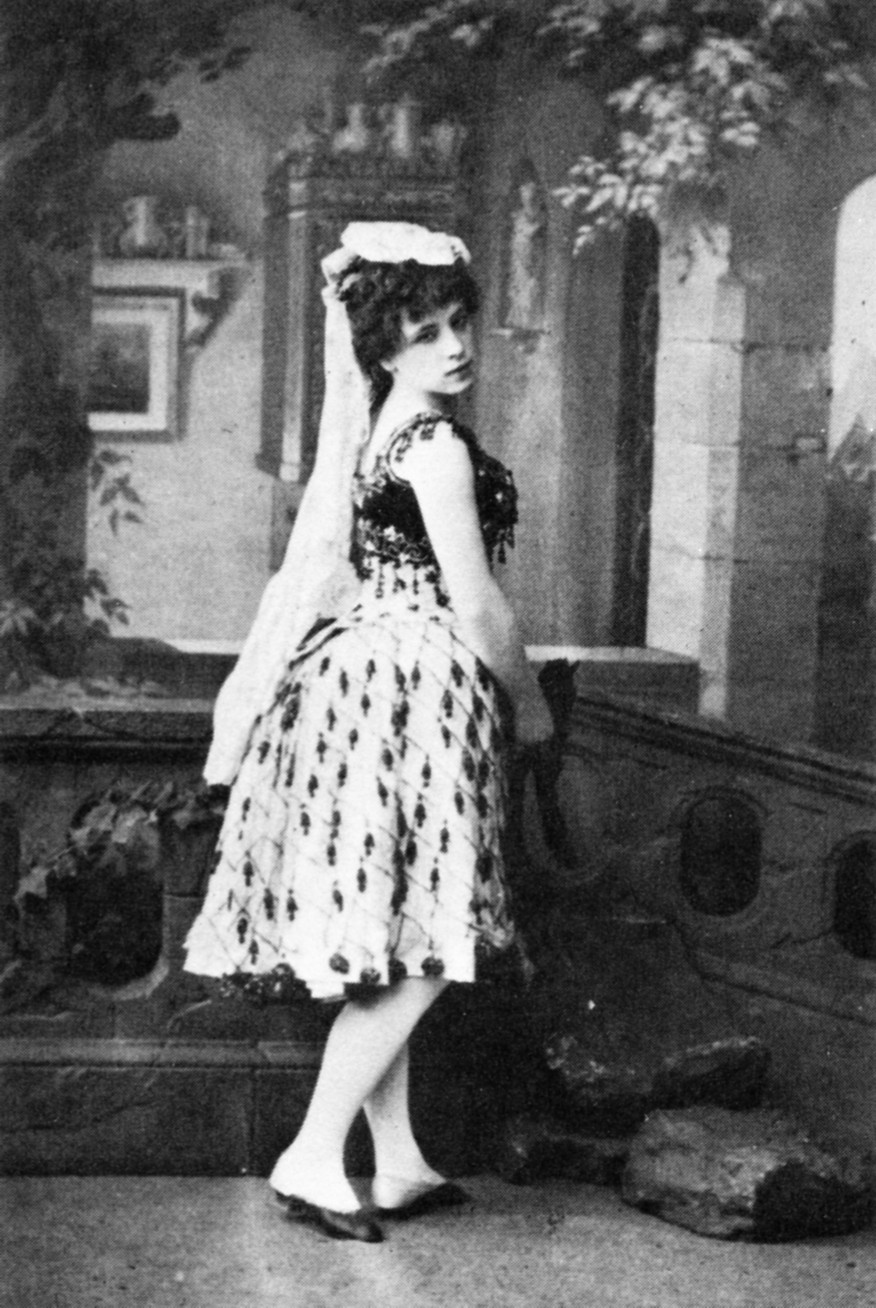 Ballerina Virginia Zucchi (1847-1930) costumed for the title role of the choreographer Marius Petipa's (1818-1910) production of the choreographer Joseph Mazilier (1801-1868) and the composer Edouard Deldevez's (1817-1897) 1846 ballet Paquita.